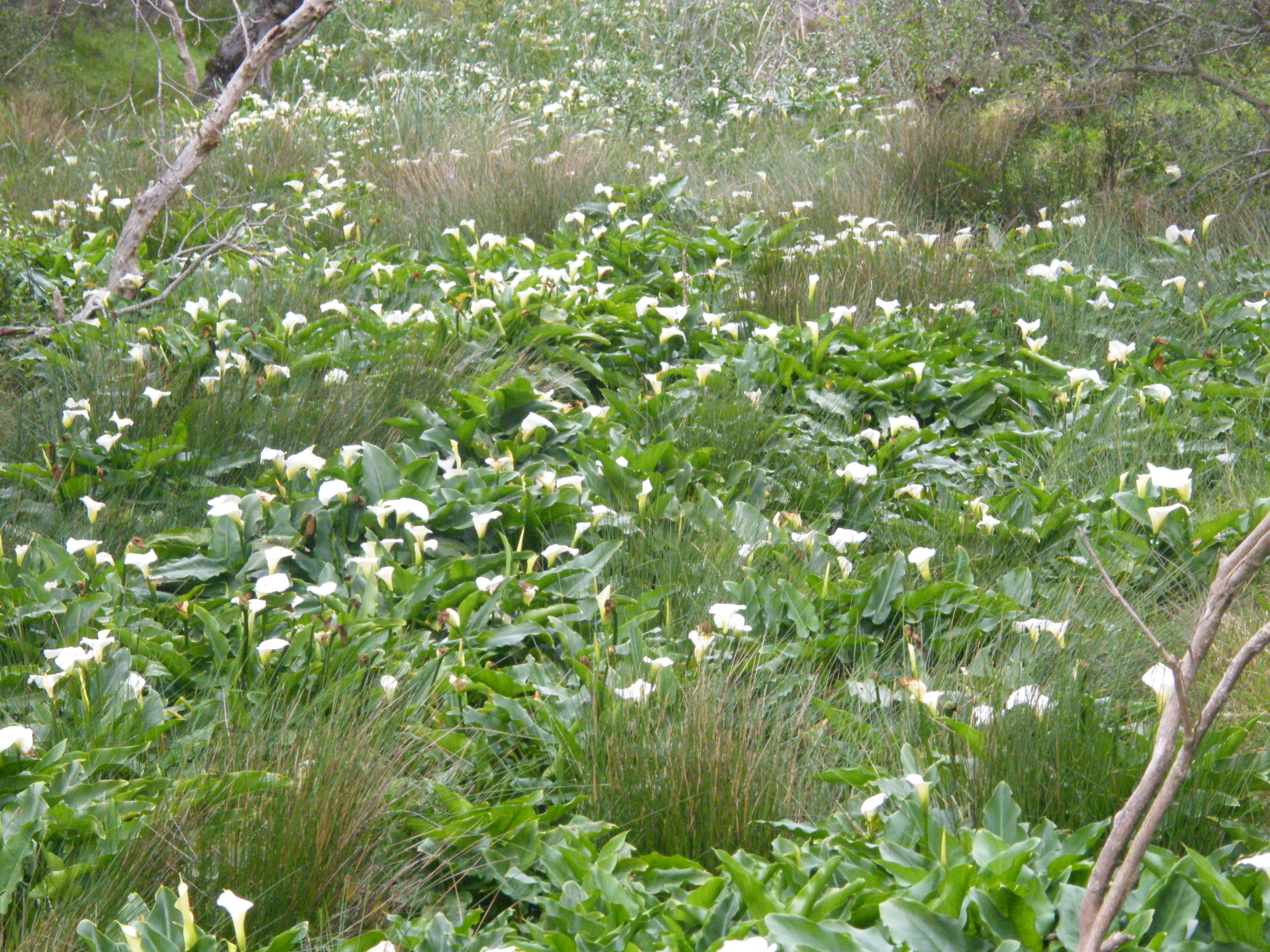 Field of arum lilies Nooordhoek, Cape Town. South Africans call these Arum Lilies, although strictly speaking they are not. Other names: Pig lilly (UK): calla lilly.